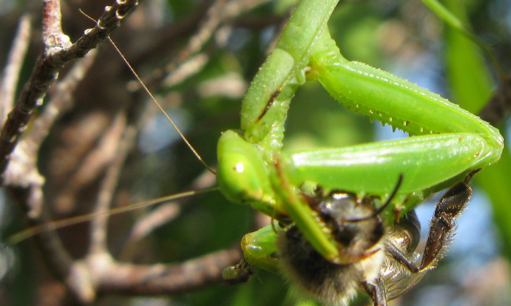 While the Sphodromantis hangs upside down eating a honeybee, a biting midge in the family Ceratopogonidae fills its belly with green mantis blood. The Midge is on the front right femorotibial joint of the mantis leg.